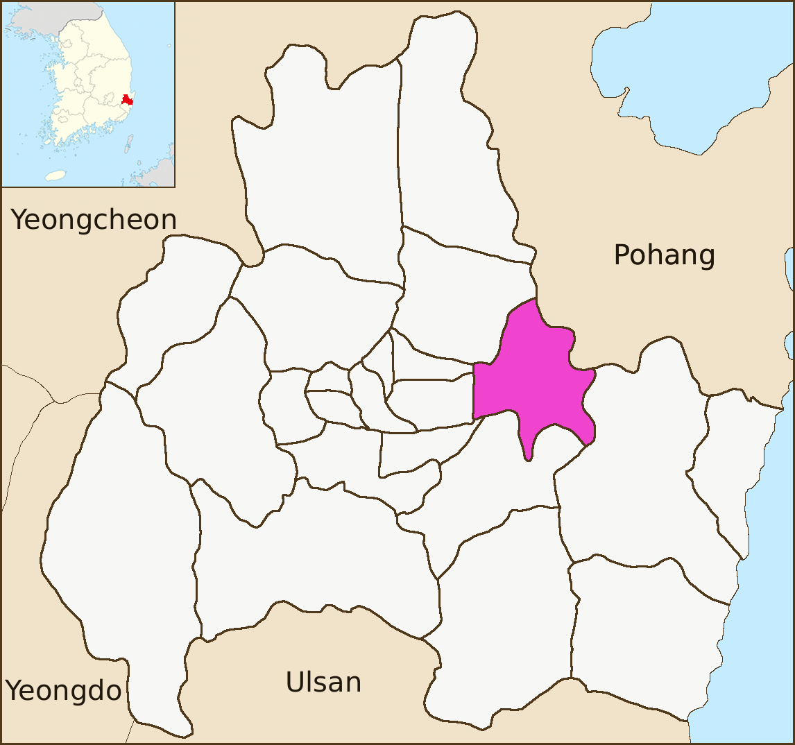 Map of Bodeok-dong, an administrative division of Gyeongju, South Korea. Created by User:Visviva, redrawn by Kokiri